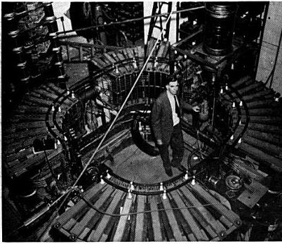 An early 300 MeV electron synchrotron at University of Michigan, 1949. Built by H. Richard (Dick) Crane, this was the first synchrotron to use the "racetrack" design; it had 4 straight sections alternating with 4 quadrant electromagnets. It had a large 500 keV Cockcroft-Walton generator (visible at left rear) as injection accelerator, the vertical injection beam tube is visible at right in front of figure. The 1 meter diameter of the quadrant magnet bends gave it a theoretical maximum energy of 300 MeV and it was briefly operated at that energy, although for most of its life it operated at a lower energy of 40 MeV. Information from Innovation Was Not Enough: A History of the Midwestern Universities Research Association (Mura), World Scientific Co., 2009, ISBN 981283284X.